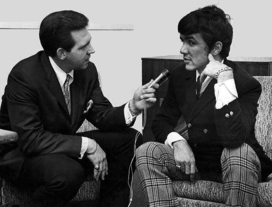 Photo of WCFL, Chicago's Jim Stagg as he interviews Dave Clark, leader of the music group, The Dave Clark Five.